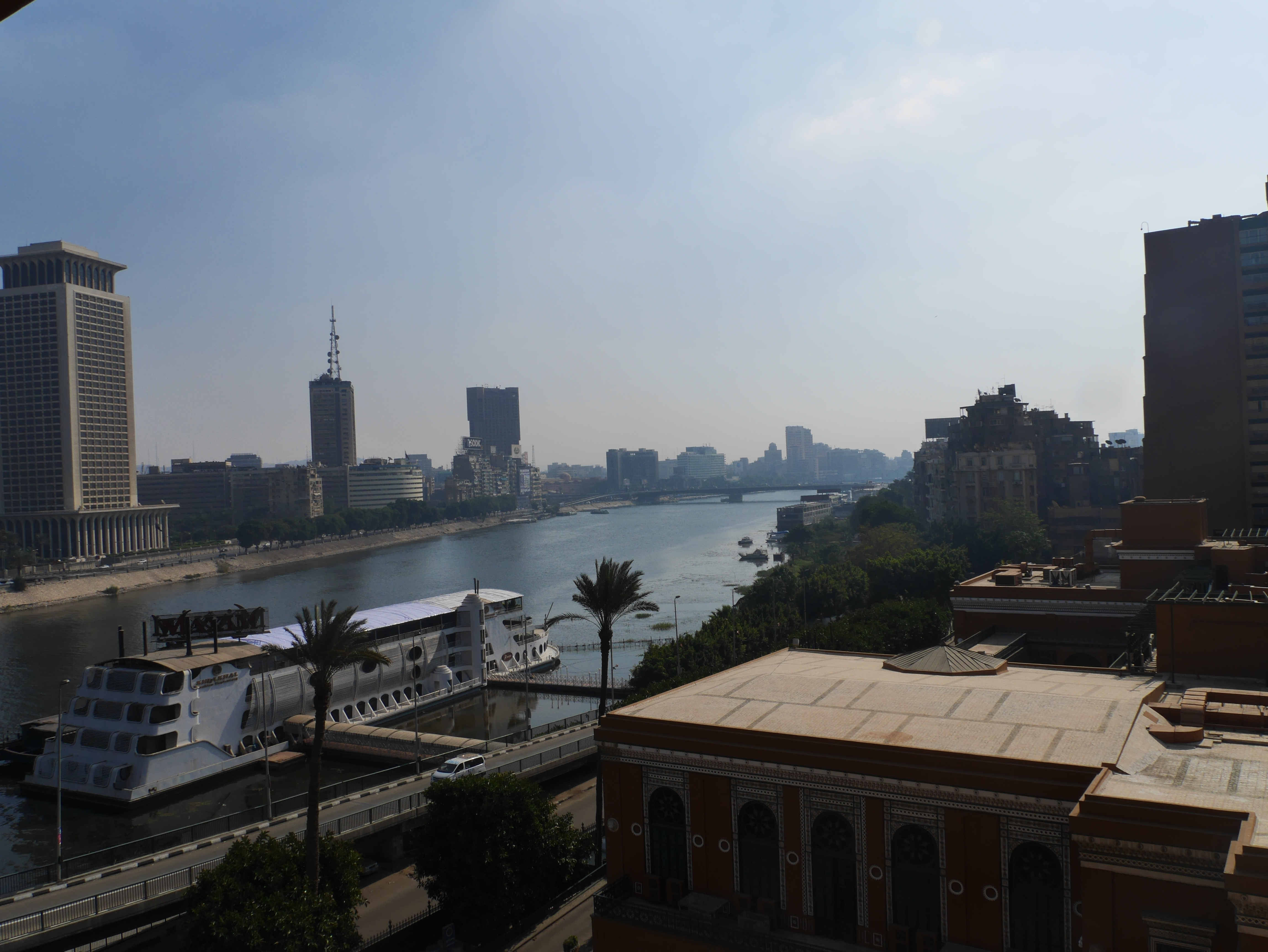 View of Cairo from the Marriott Hotel.